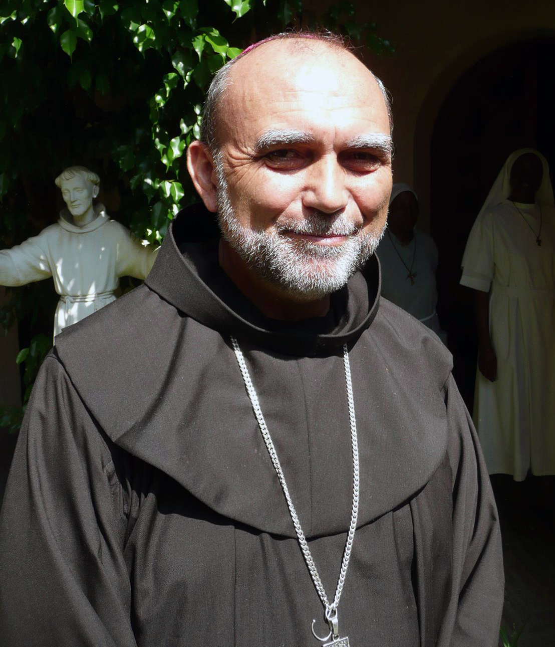 Polish Catholic bishop, ordinary in Kaga-Bandoro in Africa, Zbigniew Tadeusz Kusy OFM.